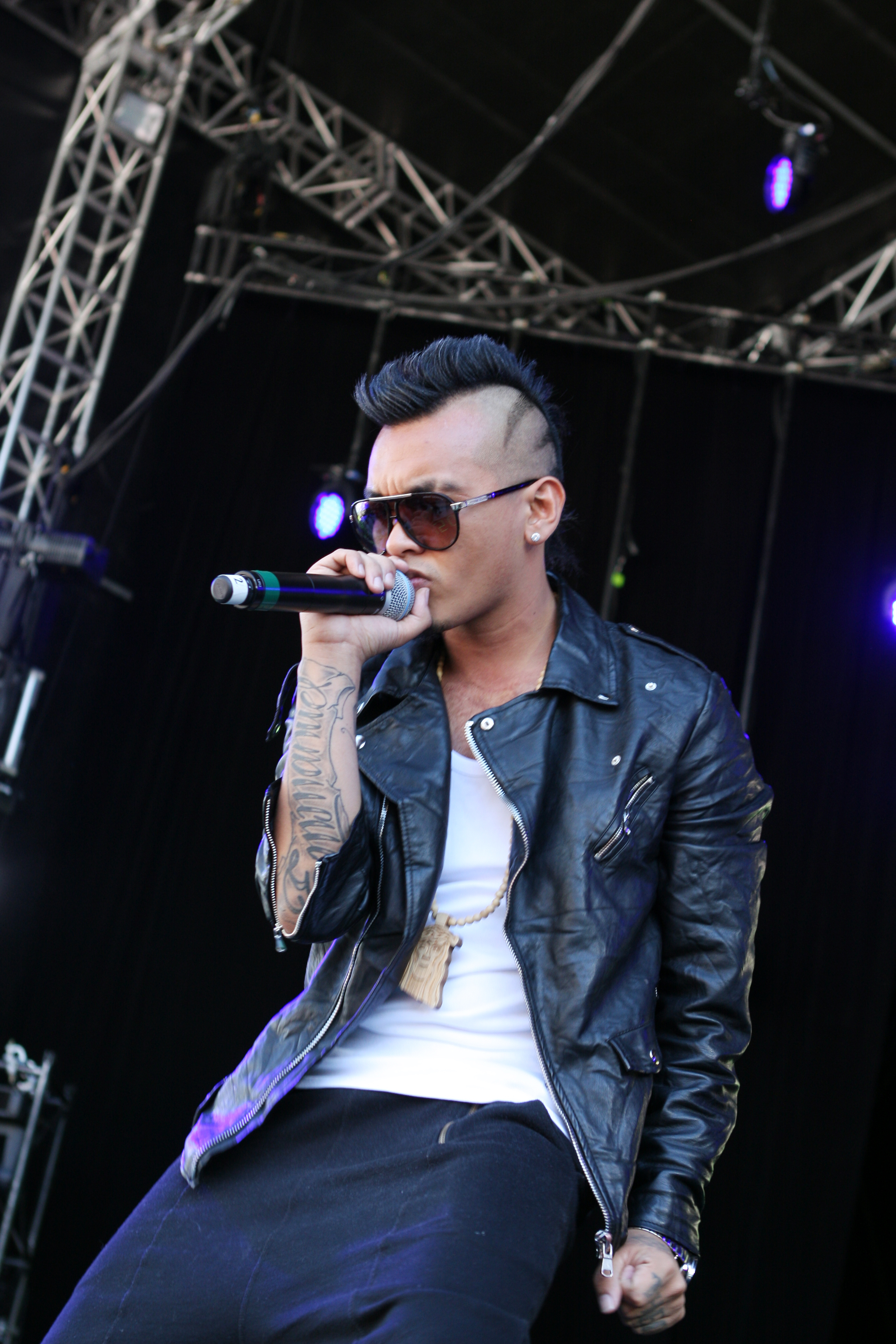 Israel Cruz Performs at Supafest in Australia, April 2011